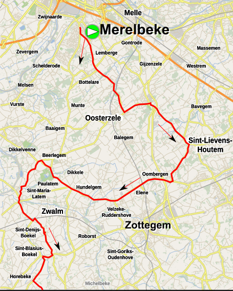 Circuit Het Nieuwsblad 2019, part 1 of the circuit.